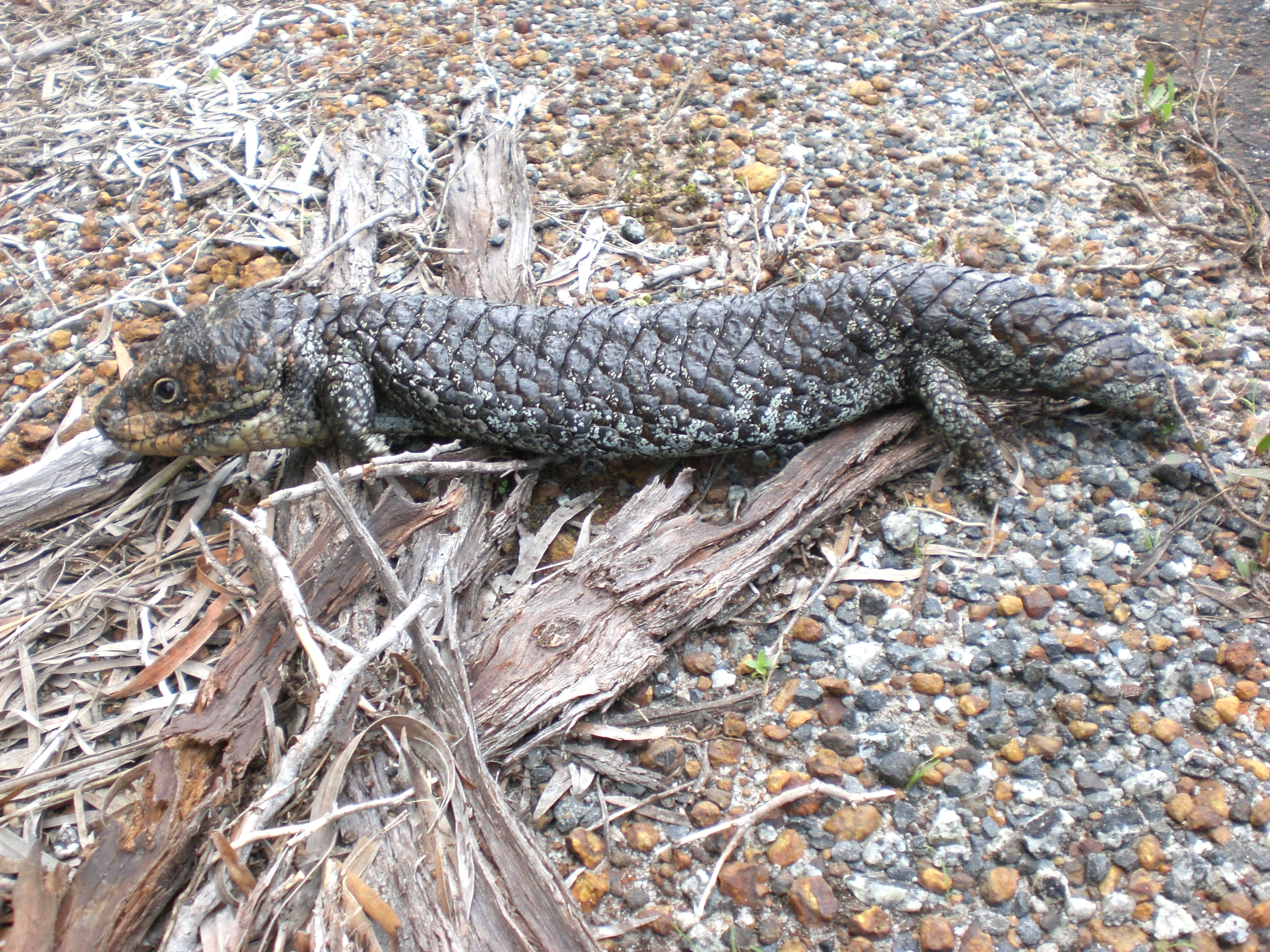 The species Tiliqua rugosa, Big Grove, Albany.